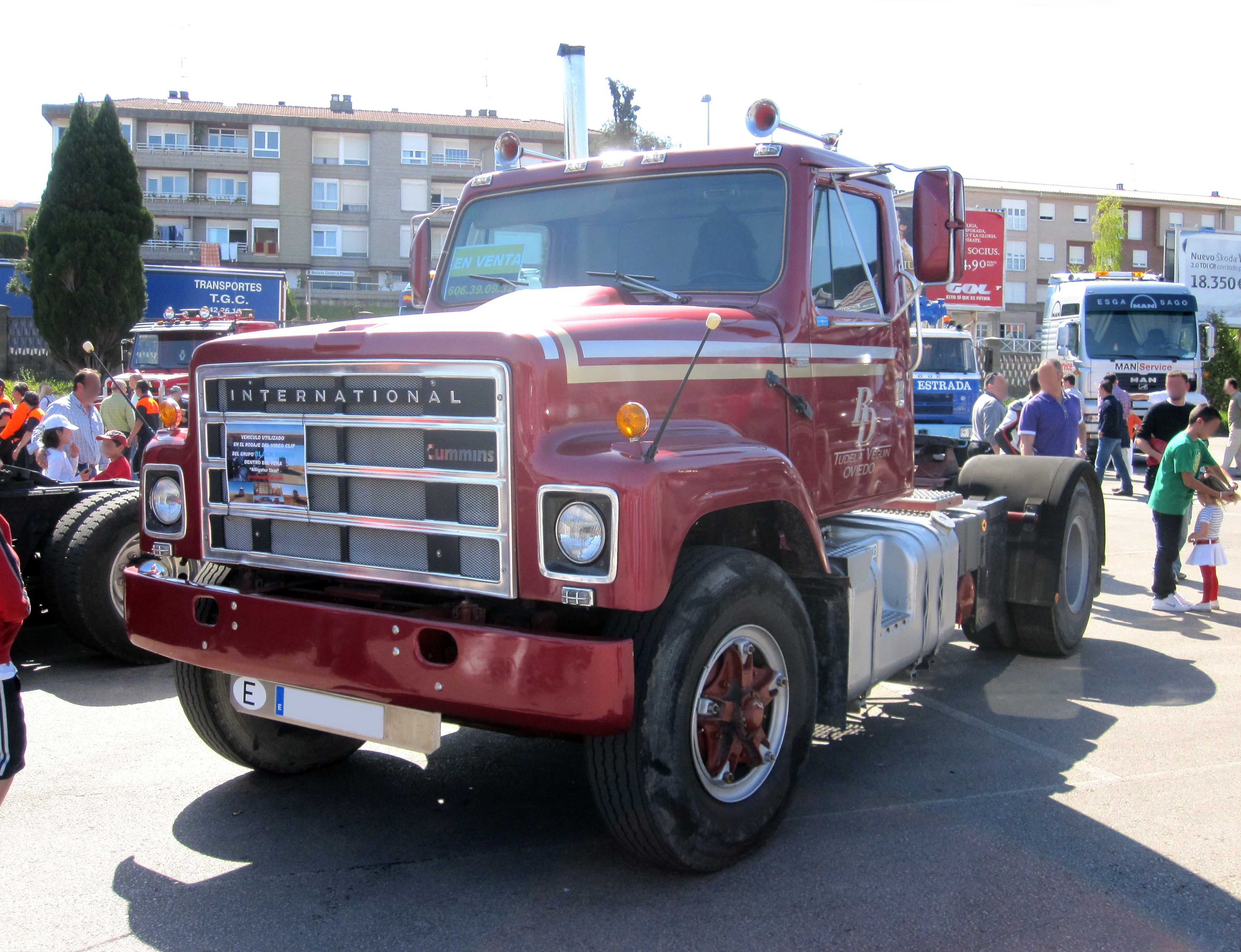 2002 plates. Truck used in this videoclip